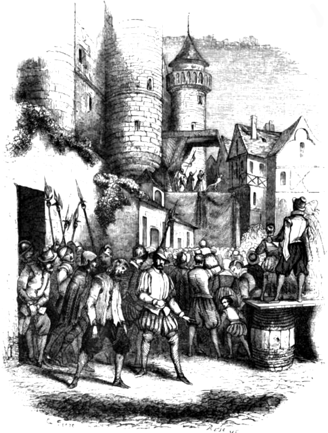 The Grand Châtelet of Paris